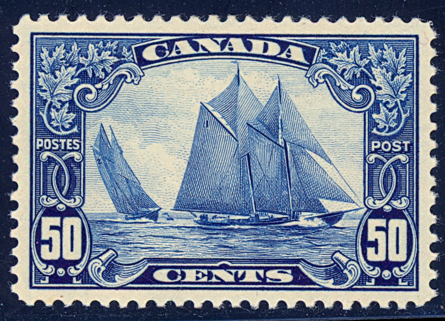 Canada postage stamp, "bluenose", 1928 issue, 50c